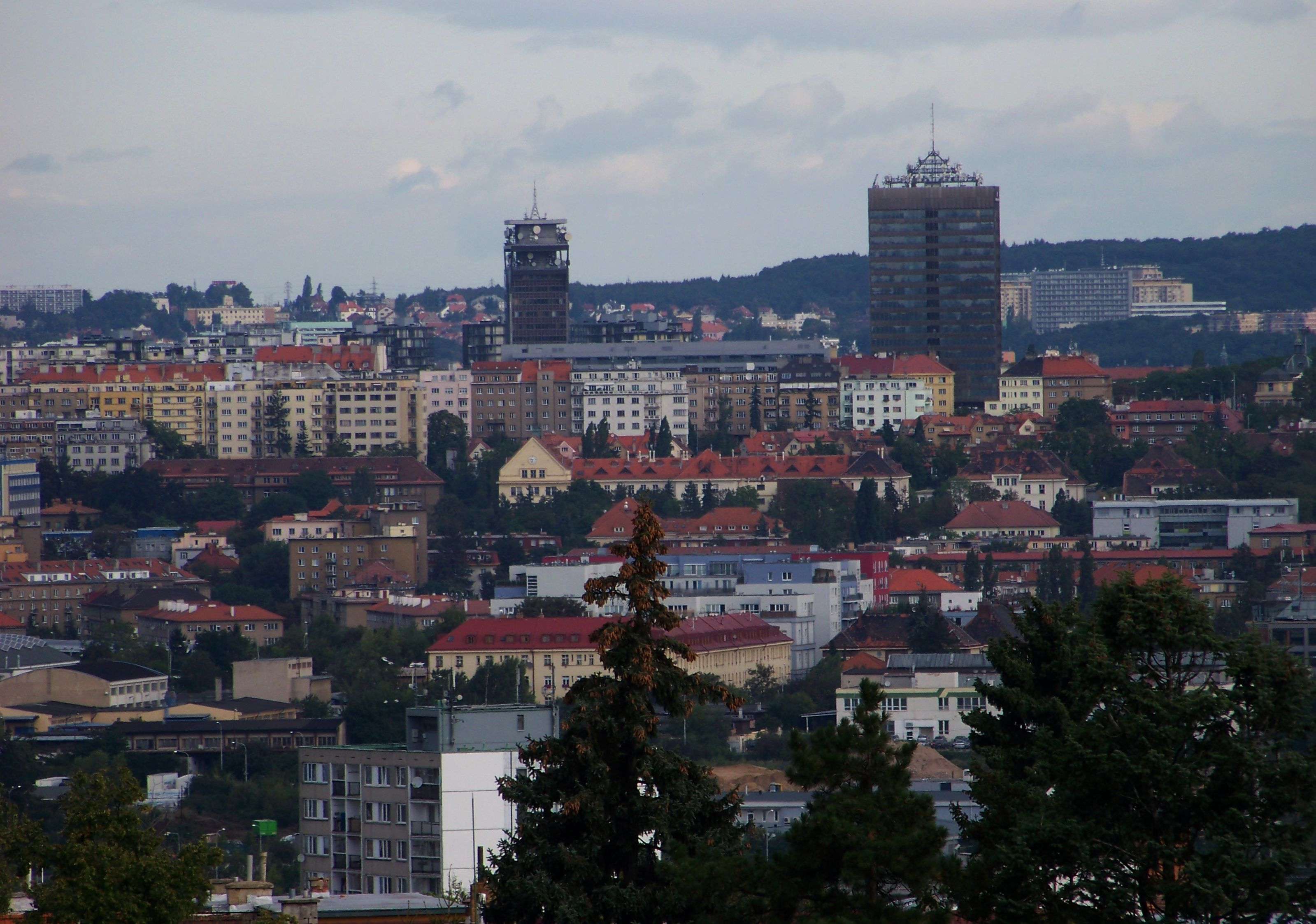 Prague, the Czech Republic. A view from earth berm near Roztyly to Vršovice, Vinohrady, Žižkov.